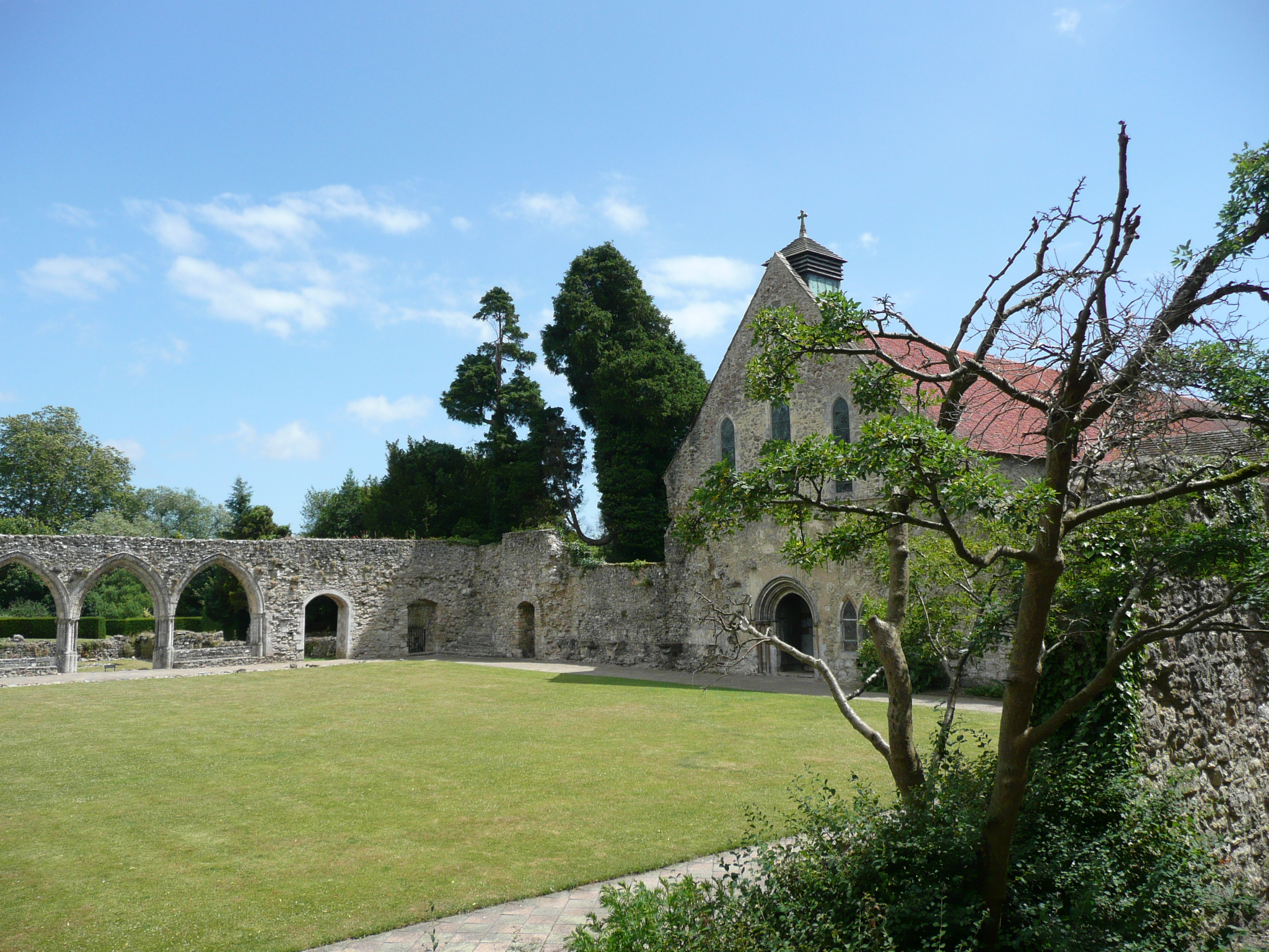 Beaulieu Abbey, Hampshire, England.